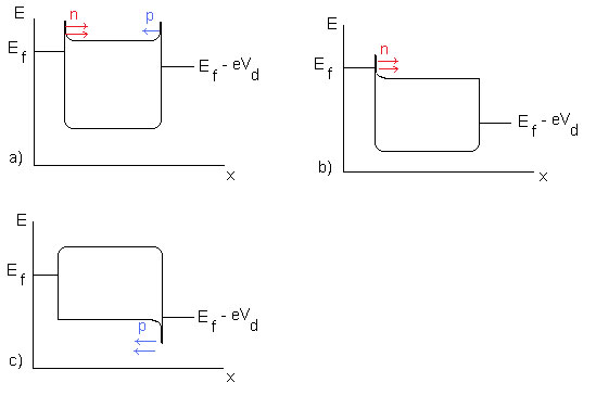 Ballistic Carbon Nanotube Field-Effect Transistor Diagram showing the device's regimes of operation and the role of the Schottky barrier